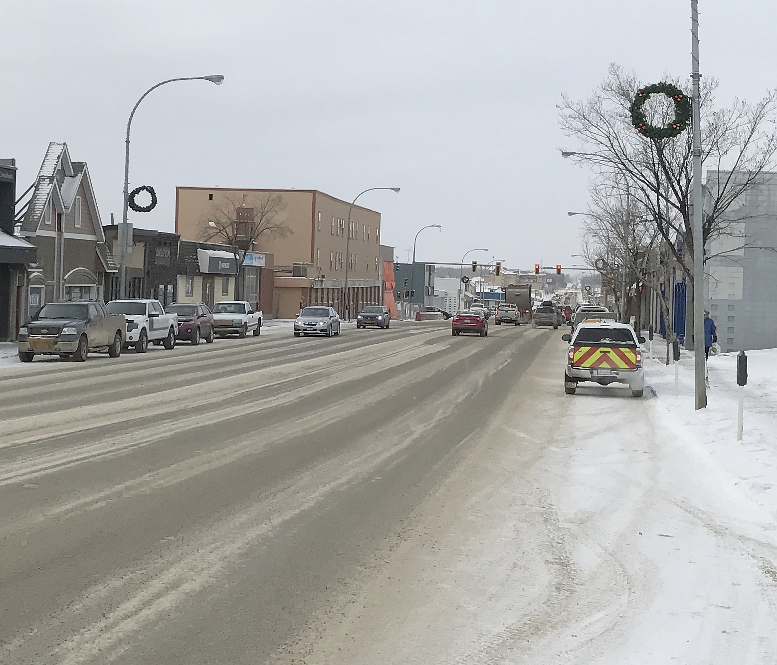 Downtown Fort St. John, British Columbia.